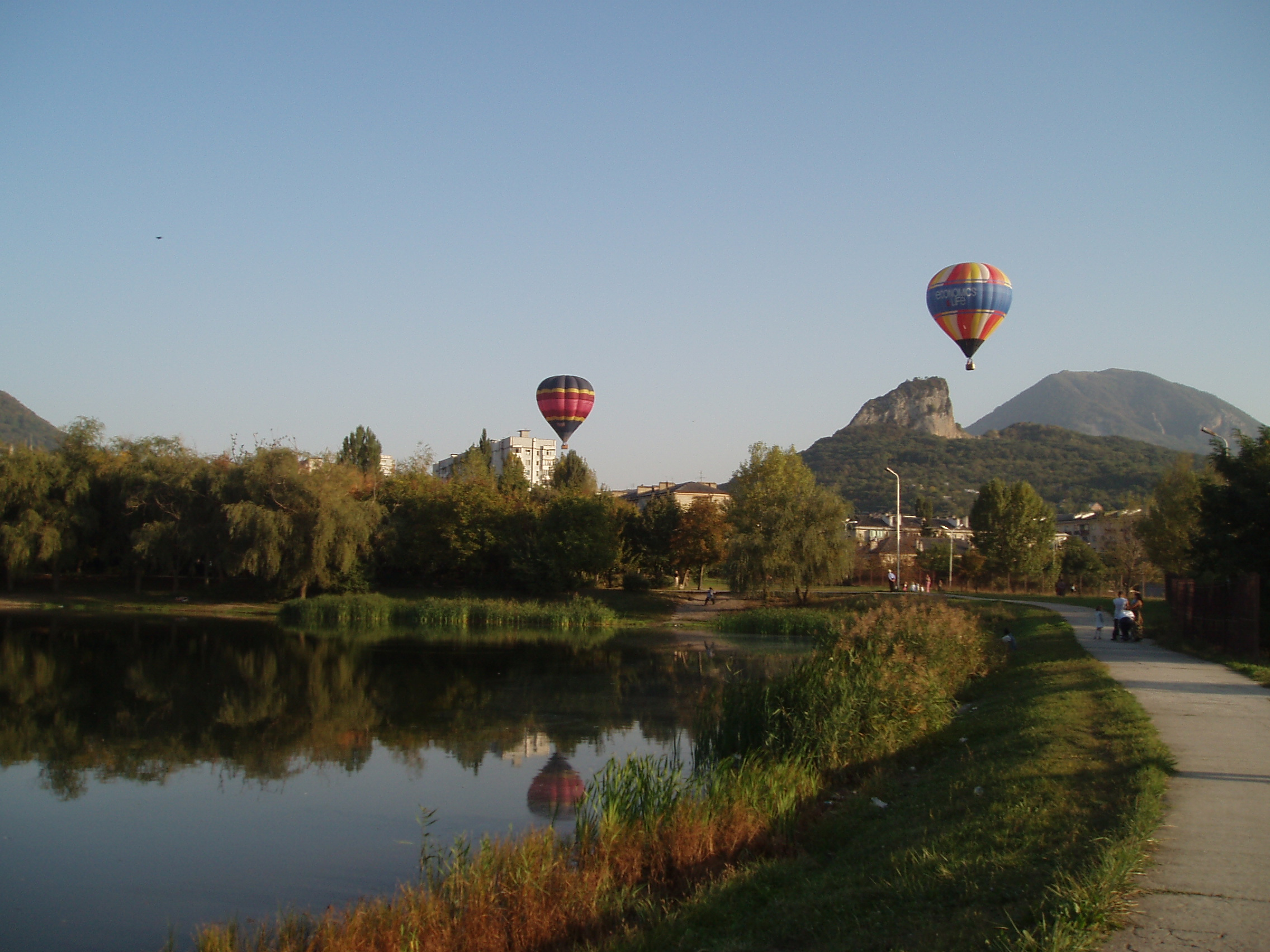 Authors Donald J. and Olga A. Johnson, Picture taken by Donald J. Johnson at Zheleznovodsk, Russia on September 29, 2004 with an Olimpus Stylus 410 digital Camera. The picture shows Zheleznovodsk Park Dam, Park Lake, Balloons, Honey Mount (near background) and Mount Beshtau (far background).